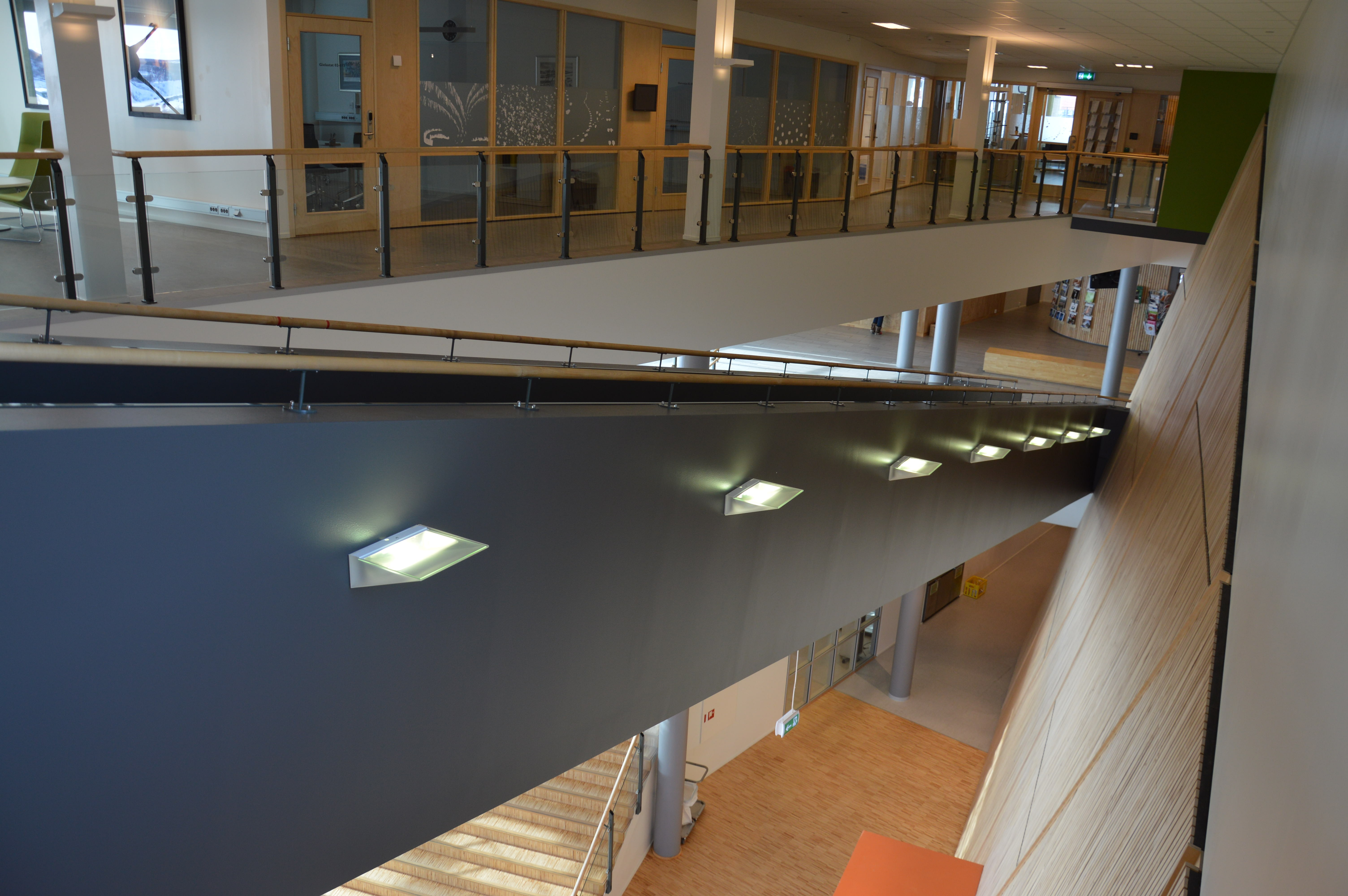 Interior staircase in Diehtosiida, a Sami knowledge centre in Guovdageaidnu/Kautokeino.